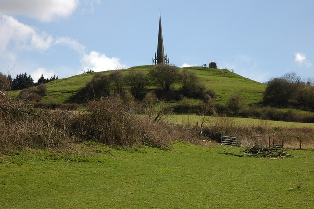 Ruardean castle, taken by Philip Halling (